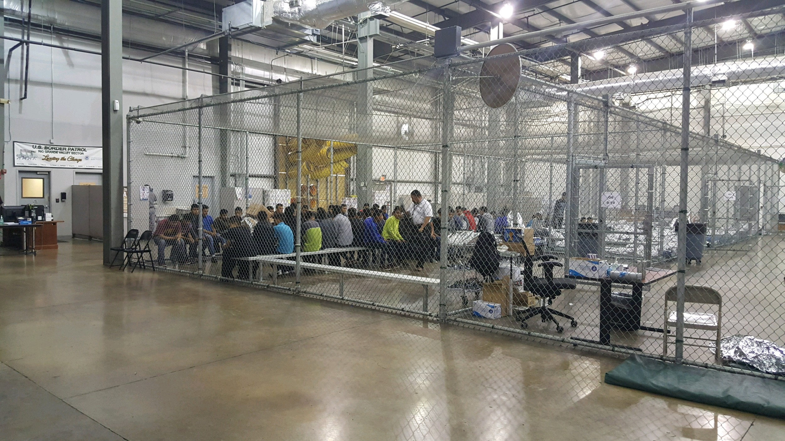 Photo provided by Custom and Border Protection to reporter on tour of detention facility in McAllen, Texas. Reporters were not allowed to take their own photos